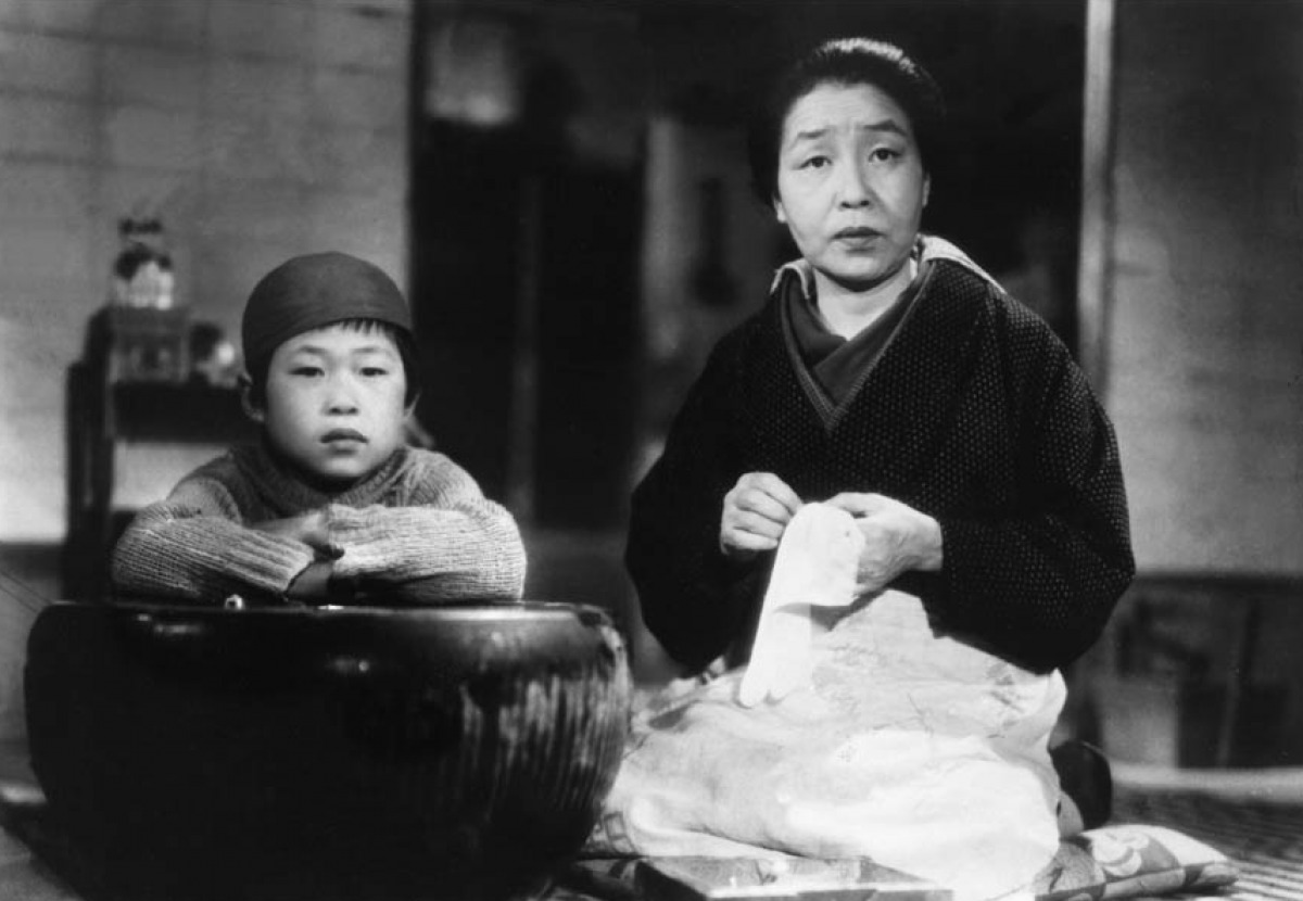 Hohi Aoki and Chōko Iida in Nagaya shinshiroku (1947)